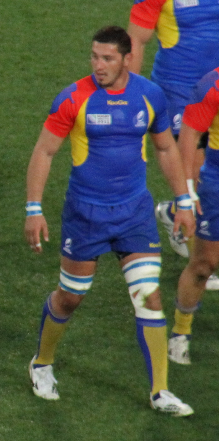 Romanian rugby union player Valentin Popîrlan during 2011 Rugby World Cup match against England.